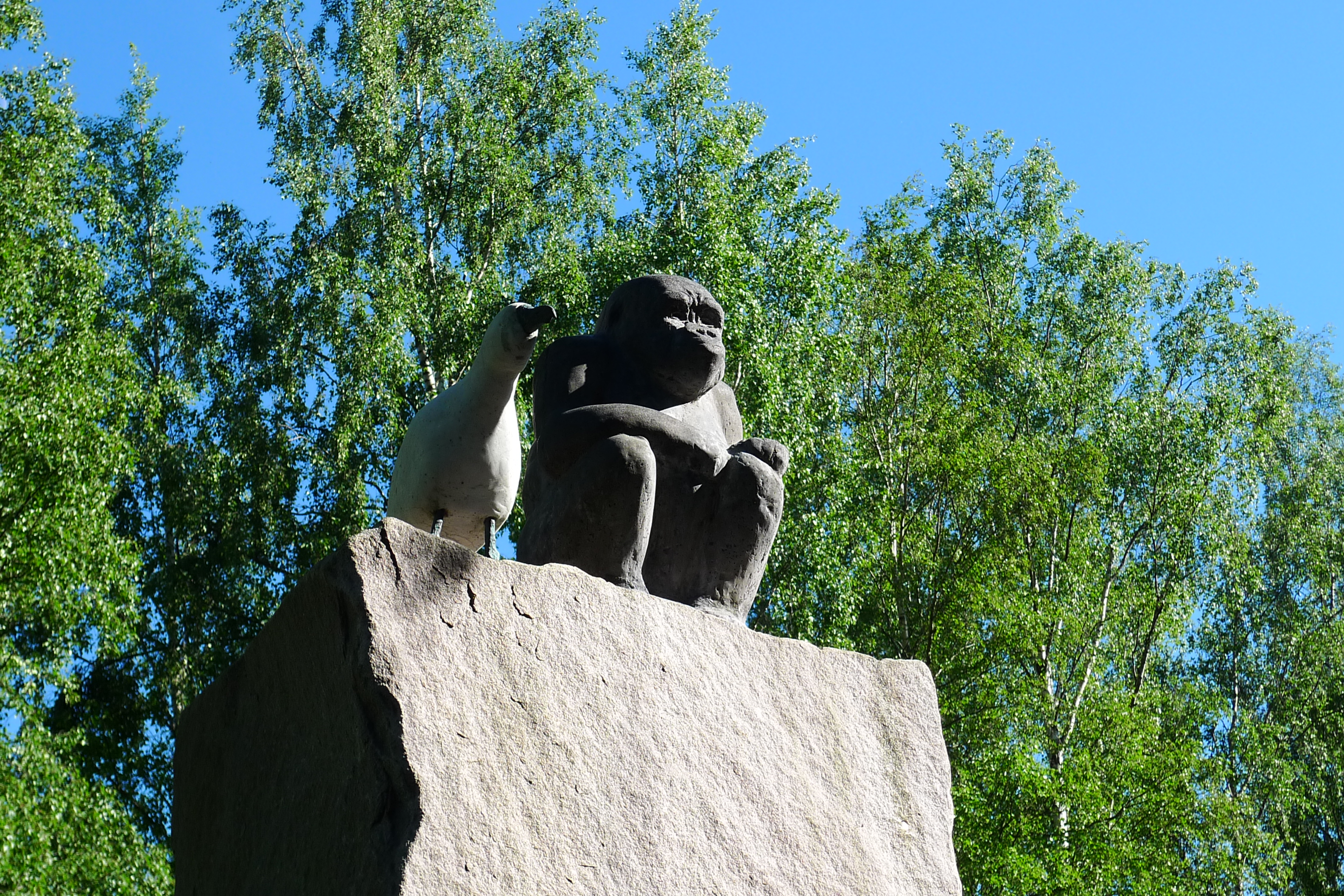 The sculpture "Fågeltempel", Örebro, Sweden